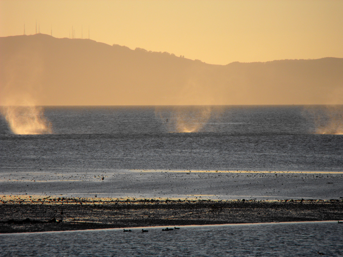 Wake vortices from A-320 landing at Oakland Airport interacting with the sea as they reach ground level.